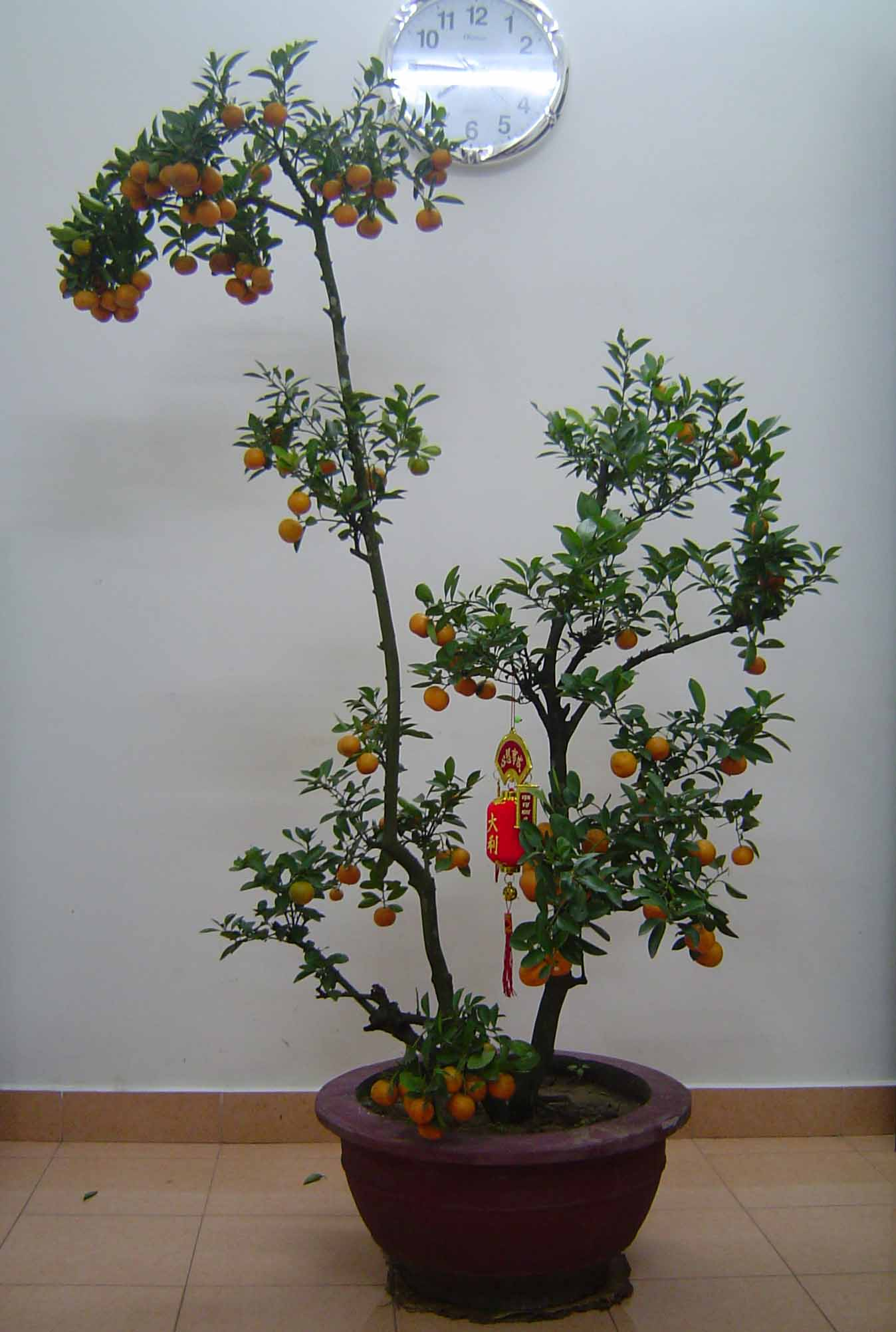 new year tree